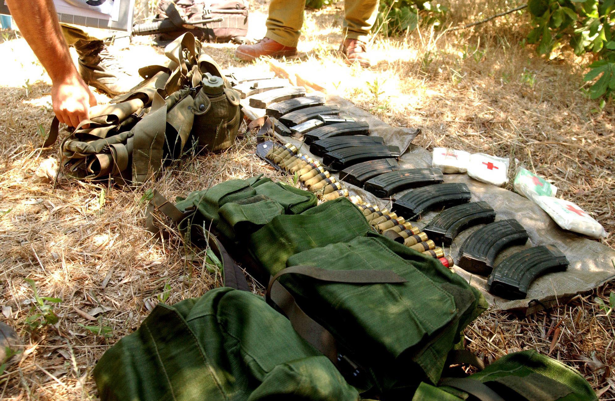 August 4, 2006 Hezbollah weaponry found during IDF operations in a village in the Eastern Sector of southern Lebanon.